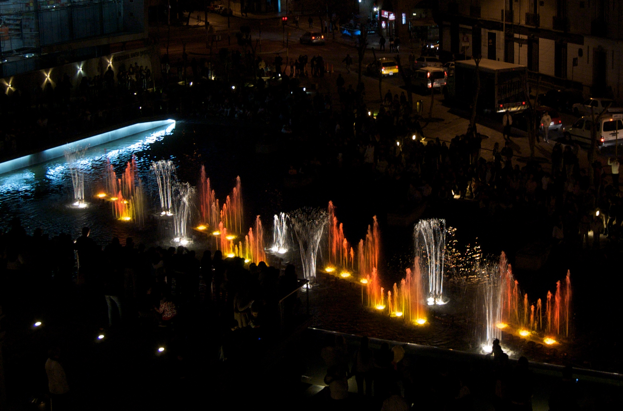 Del Buen Pastor mall. Cordoba, Argentina.